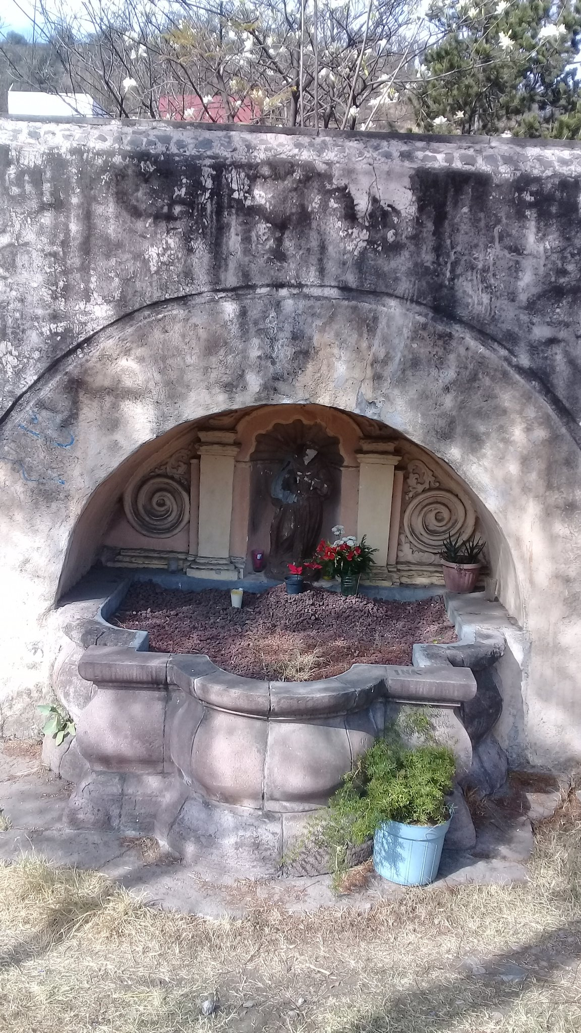 Fuente de San Francisco del acueducto de Guadalupe en el pueblo de santa Isabel Tola